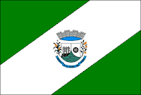 Flags of the city of Relvado, Rio Grande do Sul, Brazil.